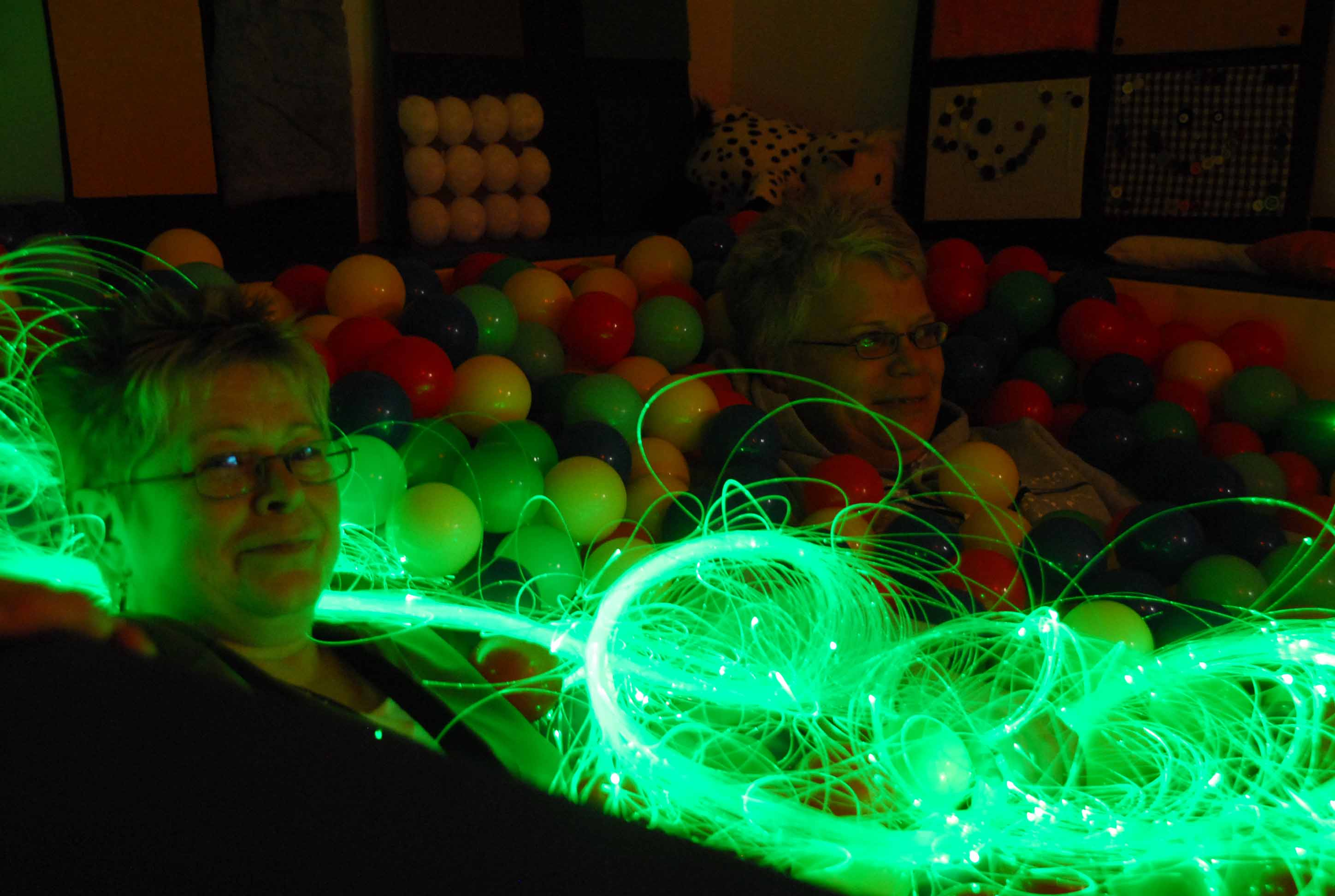 multi-sensory room1